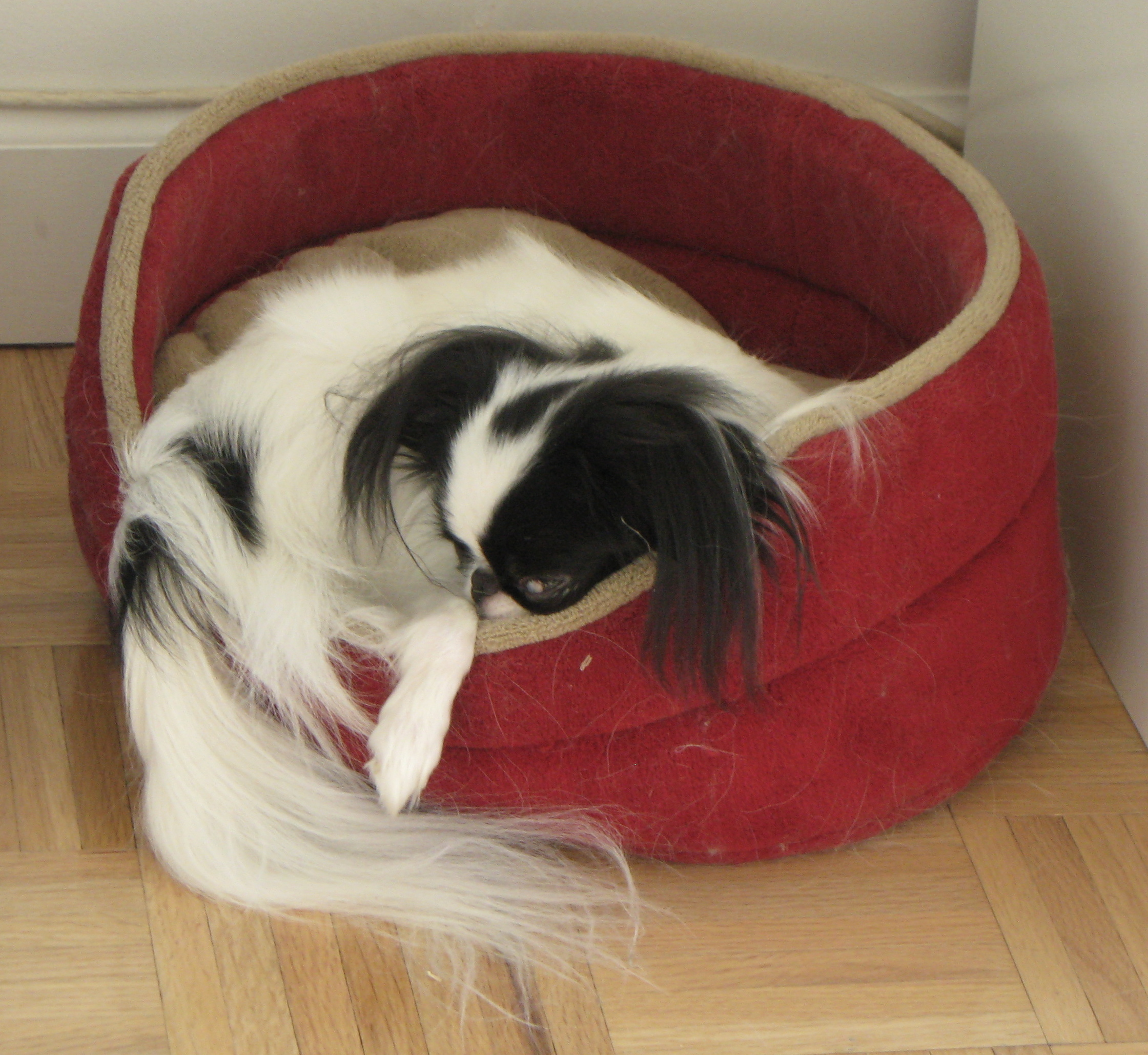 Japanese Chin are very cat-like